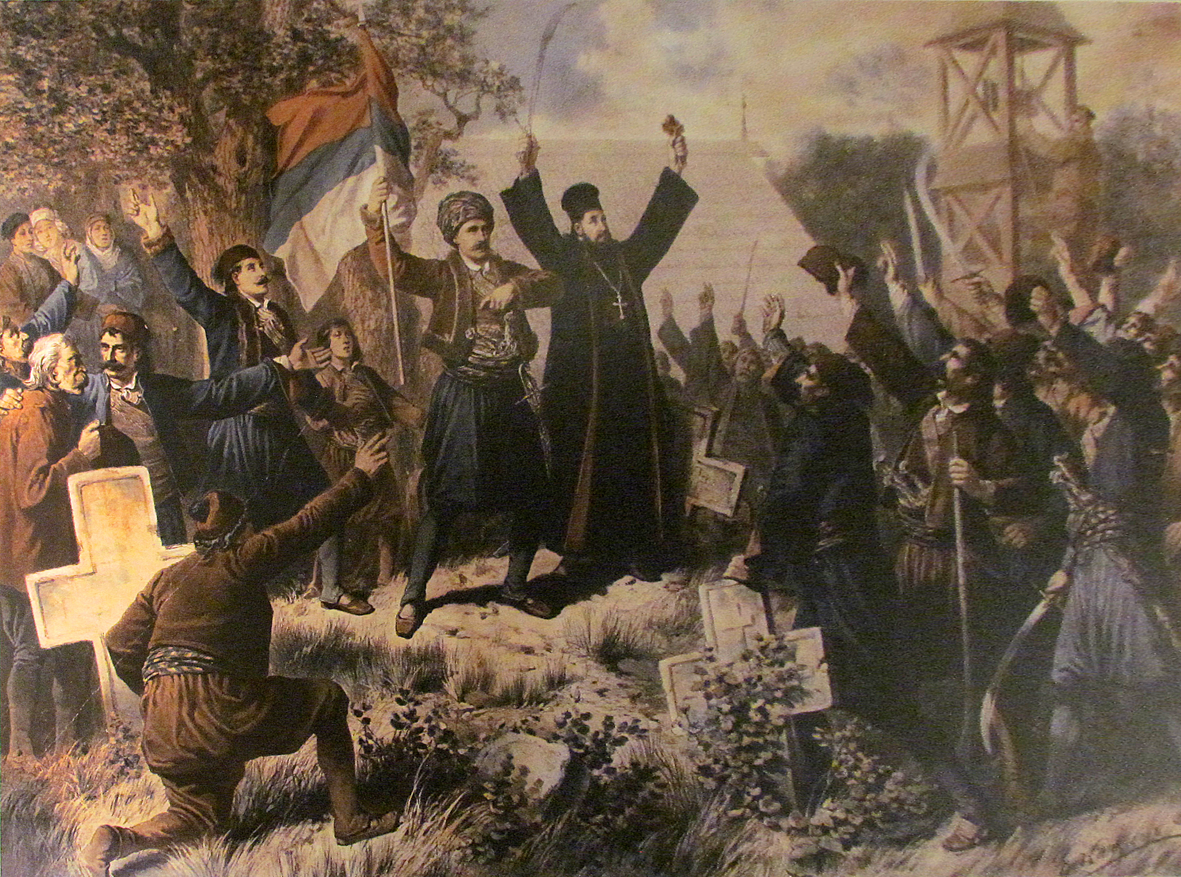 Vinzenz Katzler, The Takovo Uprising, 1862, Historical Museum of Serbia